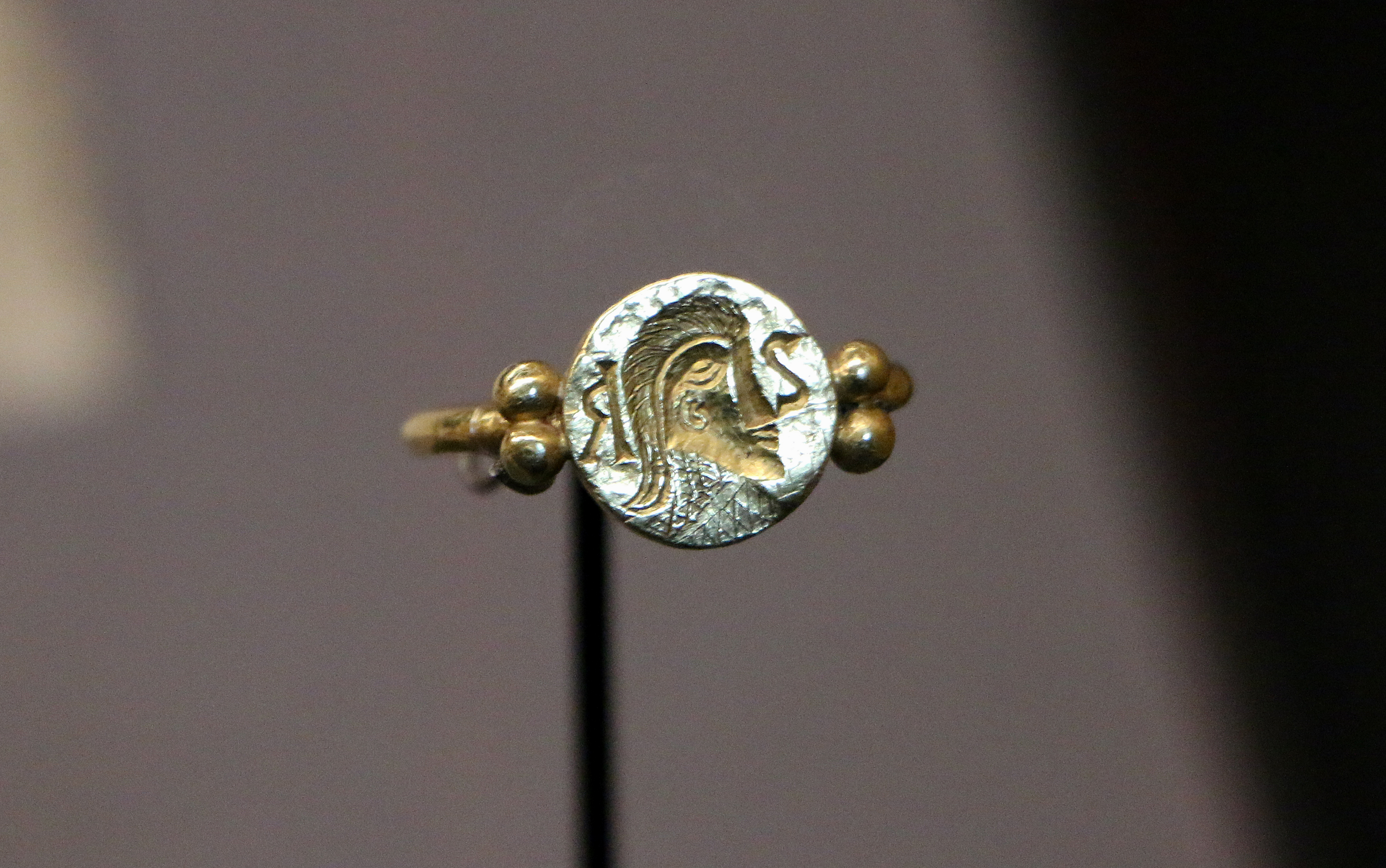 Ring of the King and Saint Sigebert III, it is also his seal. Made of Gold 7th century